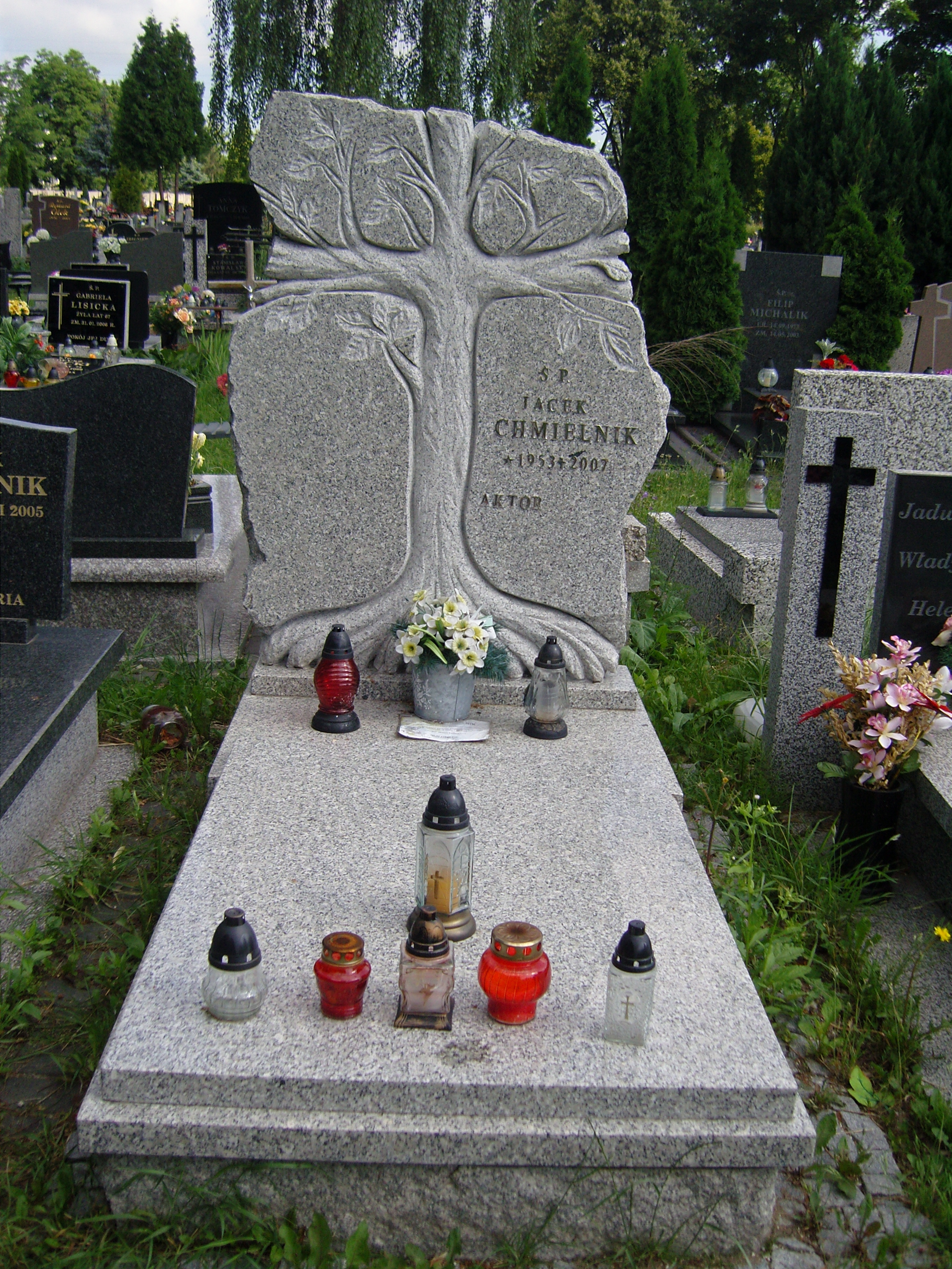 Jacek Chmielnik's grave